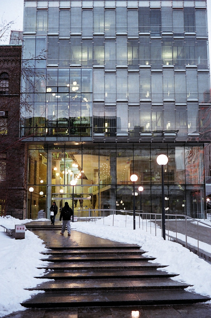 Terrence Donnelly Biomolecular Research Center, Toronto Ontario